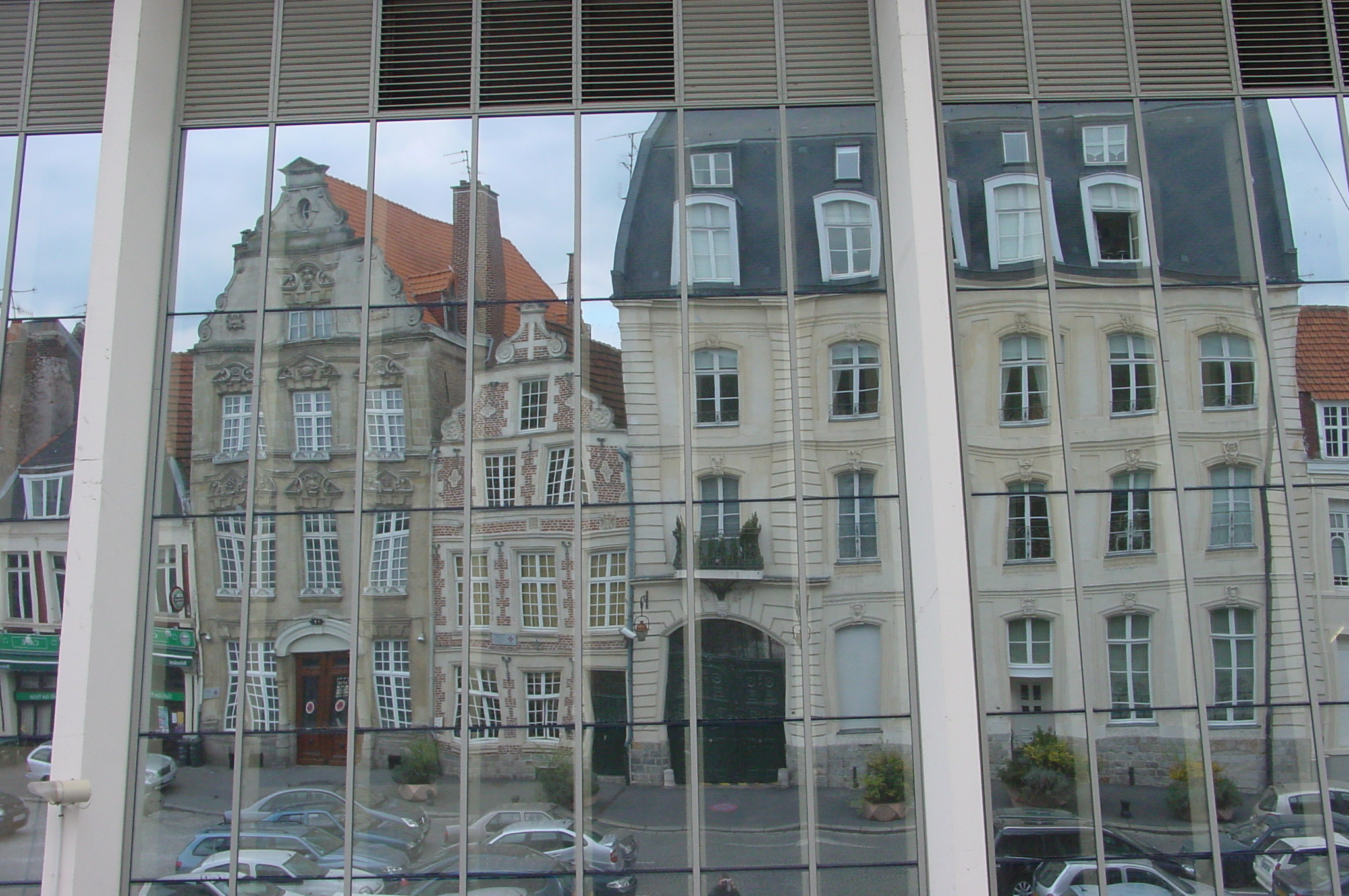 Façades of 17th and 18th century houses reflected in glass wall of covered market in Cambrai (France)